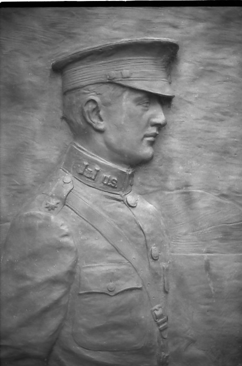 photo by Einar Einarsson Kvaran aka Carptrash 10:05, 5 February 2007 (UTC) Edward Hartwick by sculptor Julius Loester in Woodlawn Cemetery